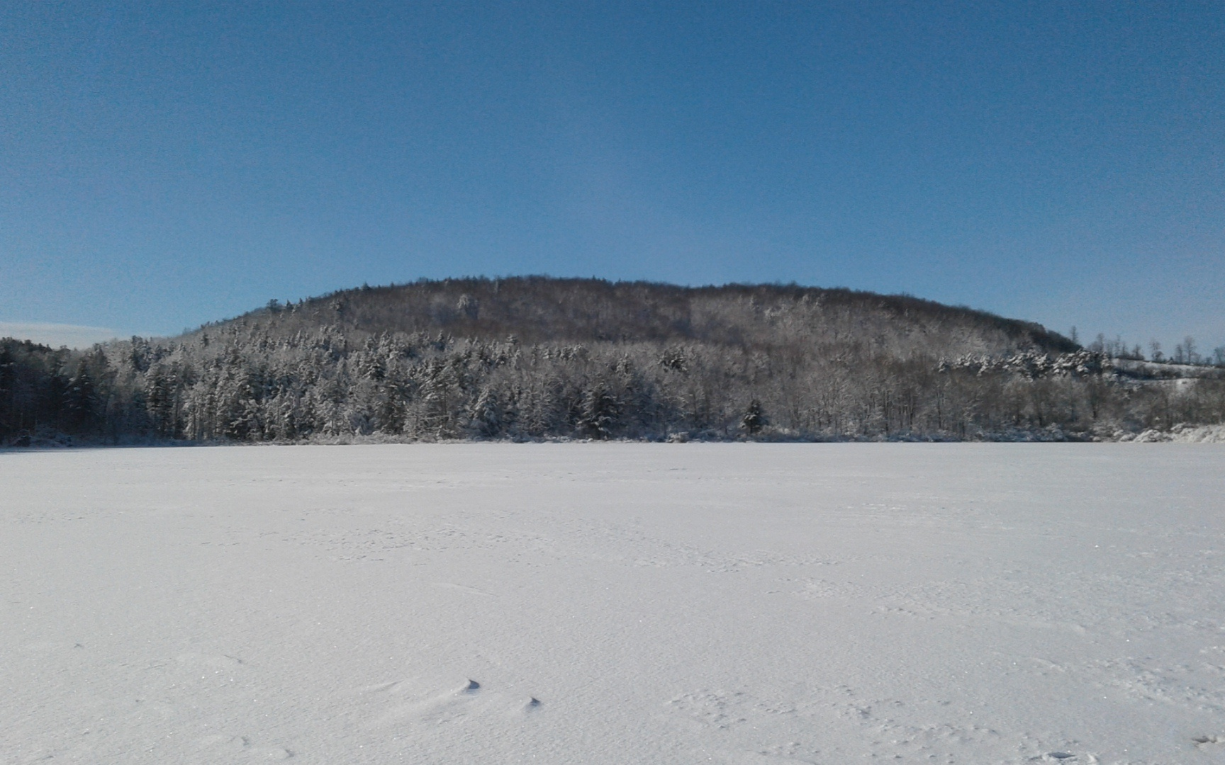 Mohegan Hill in Otsego County, New York. Picture is taken from Allen Lake (New York) in January 2019.